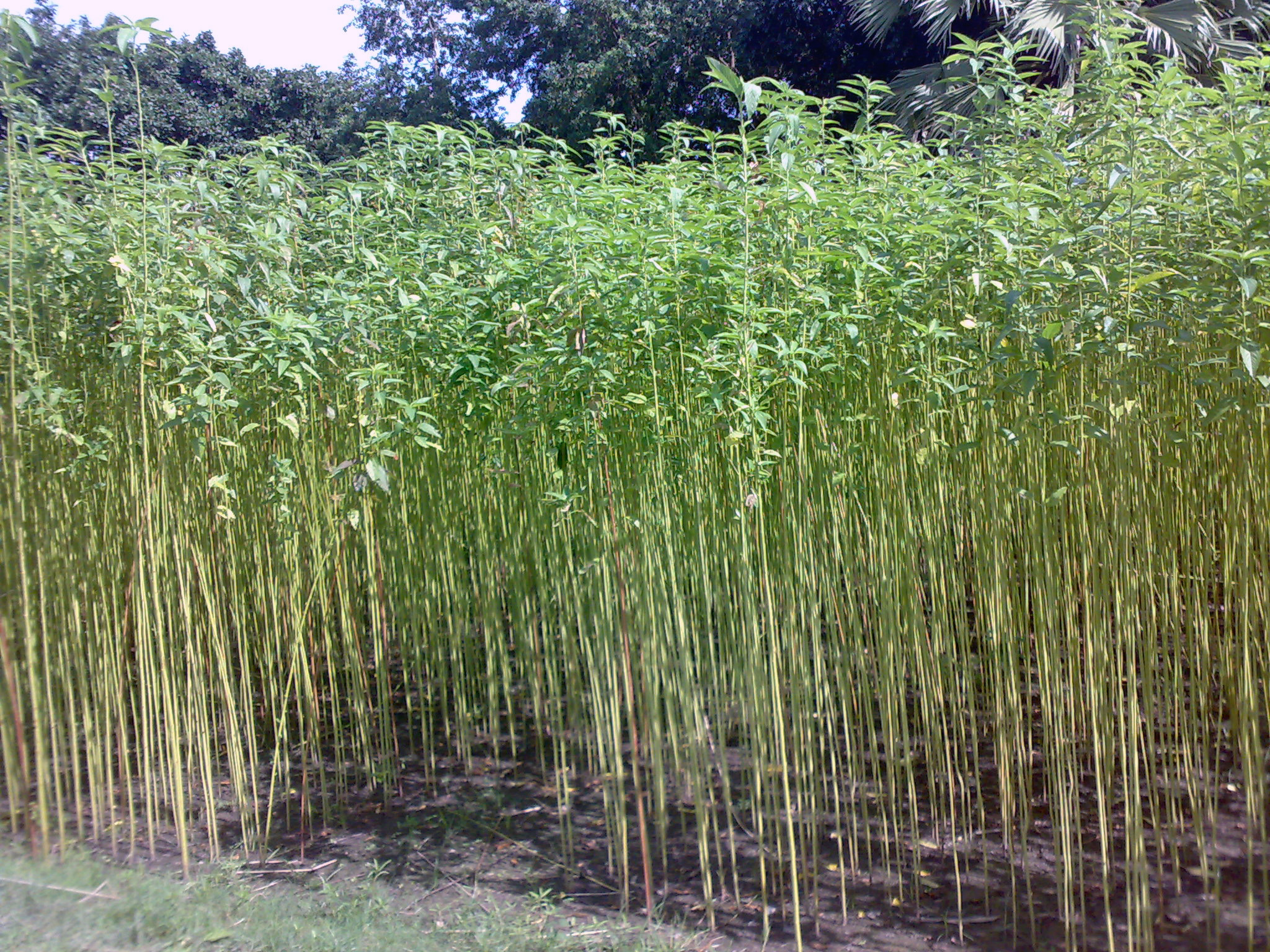 Rainy Season Jute Maintenance